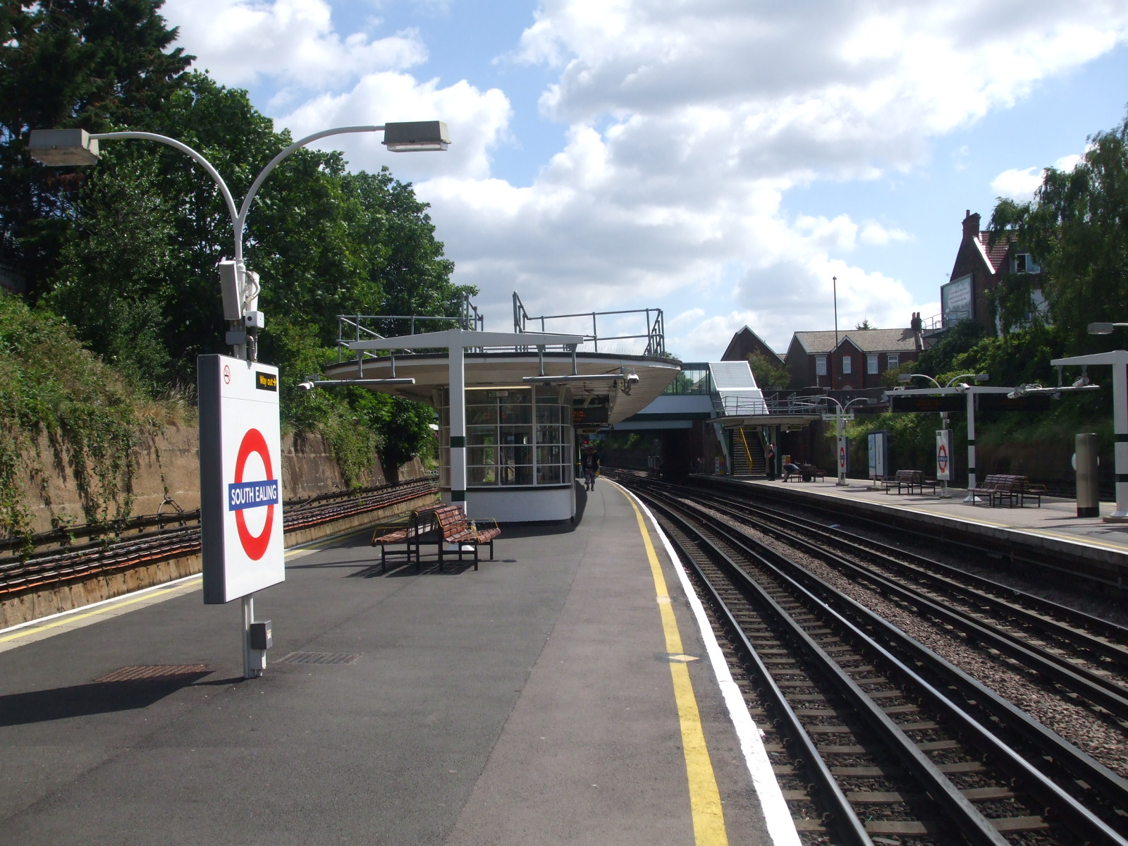 South Ealing tube station, looking east. There are two pairs of tracks, one pair in each direction, but the northern-most track (eastbound, on the far left) is rarely used.